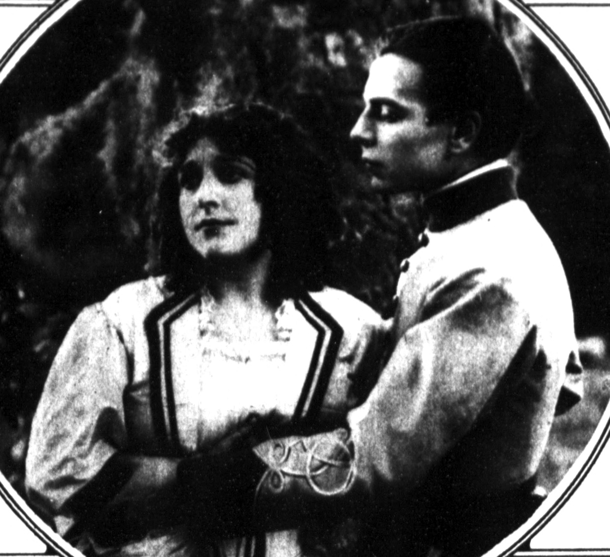 Scene from the American historical film The Heart of Maryland (1921) as printed in a newspaper.